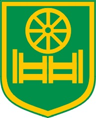 Coat of arms of Taebla vald, Estonia